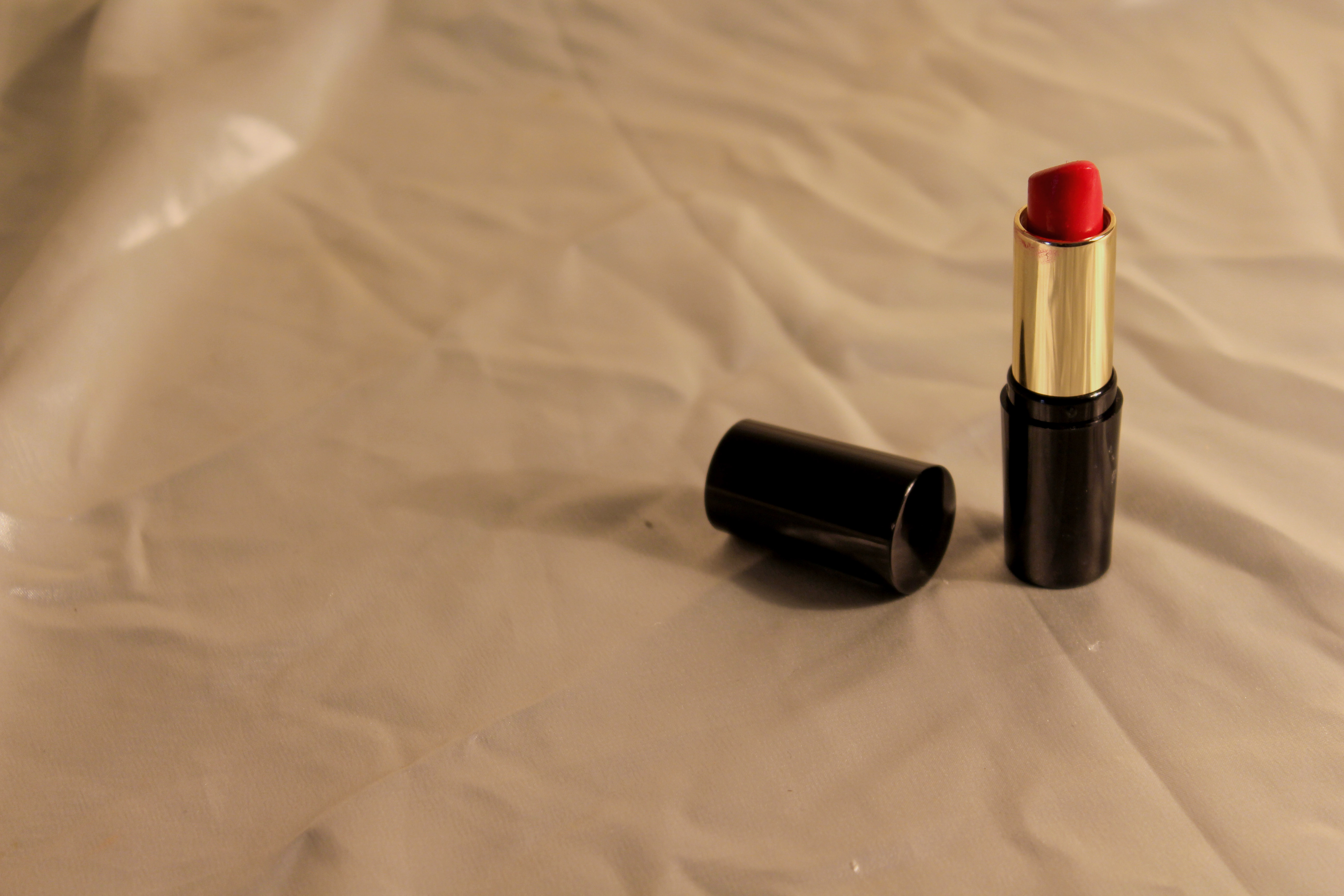 Red Lipstick